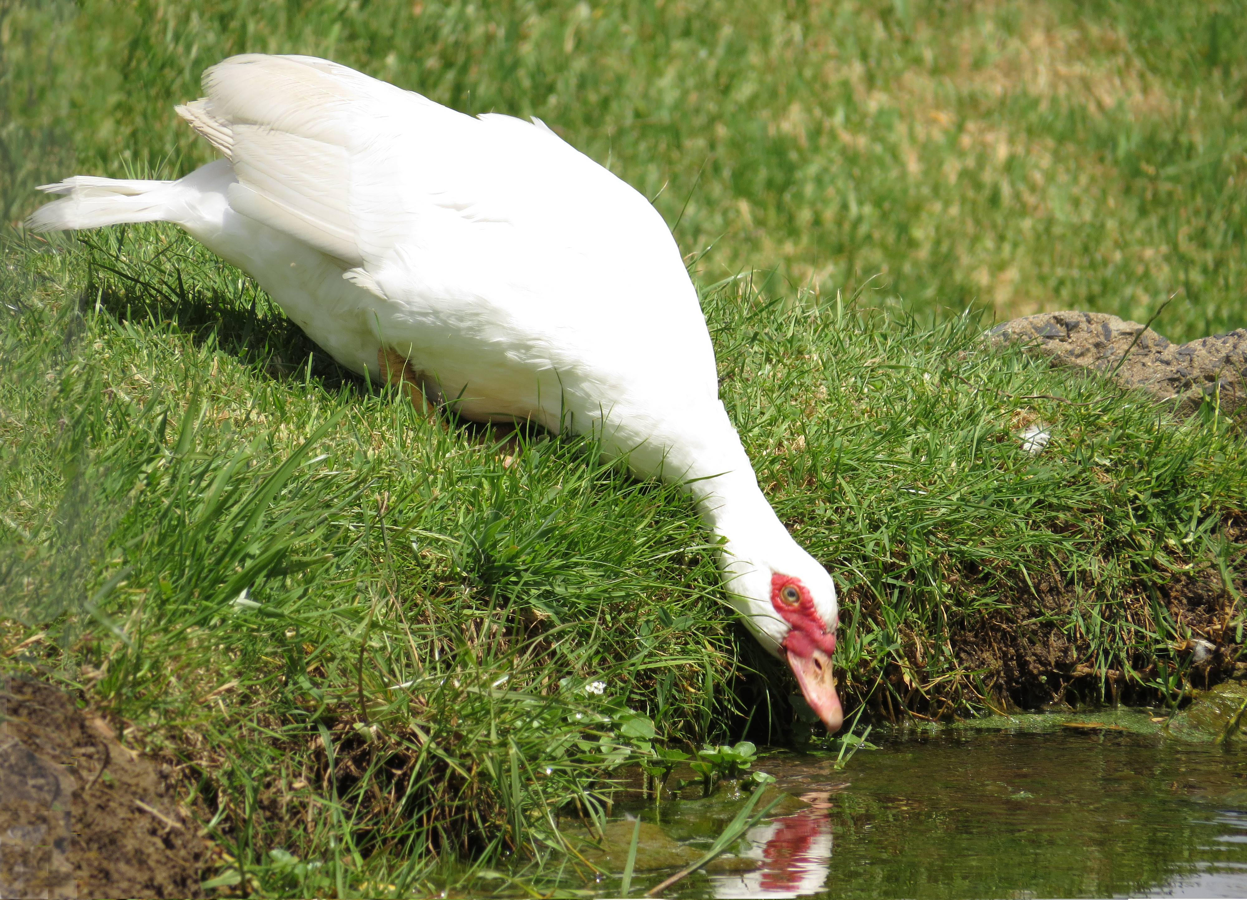 Feral Muscovy duck on a golf course in the Western Cape, South Africa